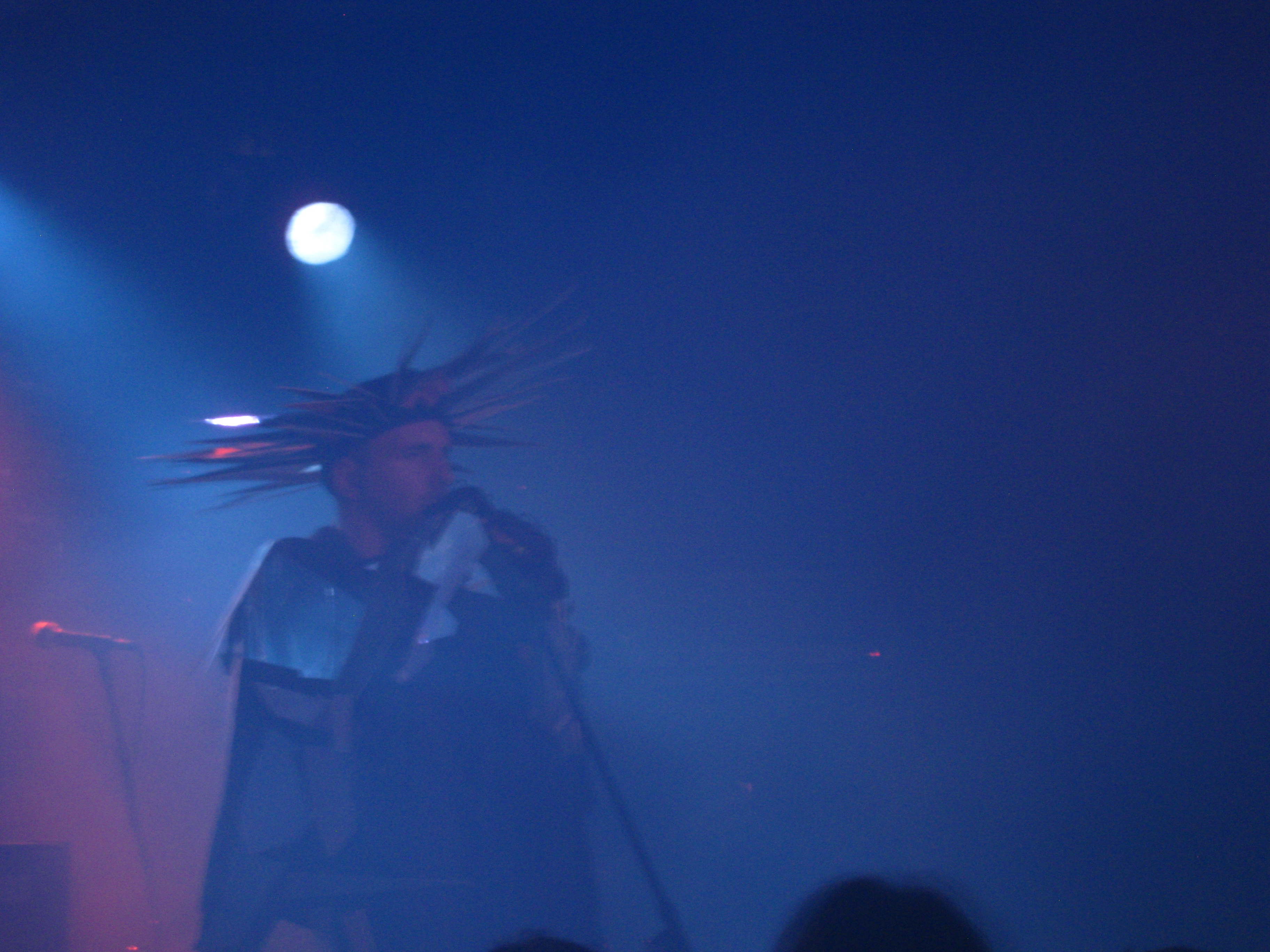 Attila Csihar of Sunn O))) live at Sonar in Baltimore.